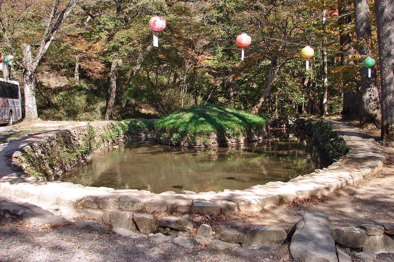 Samindang is a small oval-shape pond with a small isle, with an evergreen, inside the pond. According to historical records the pond was created by Monk Doseon Guksa in 862. A plaque at the pond reads "Samin represents Buddhist ideals: 'Everything changes and there is no being. When people realize it, they enter Nirvana'". A pond like this is found only at Seonamsa.